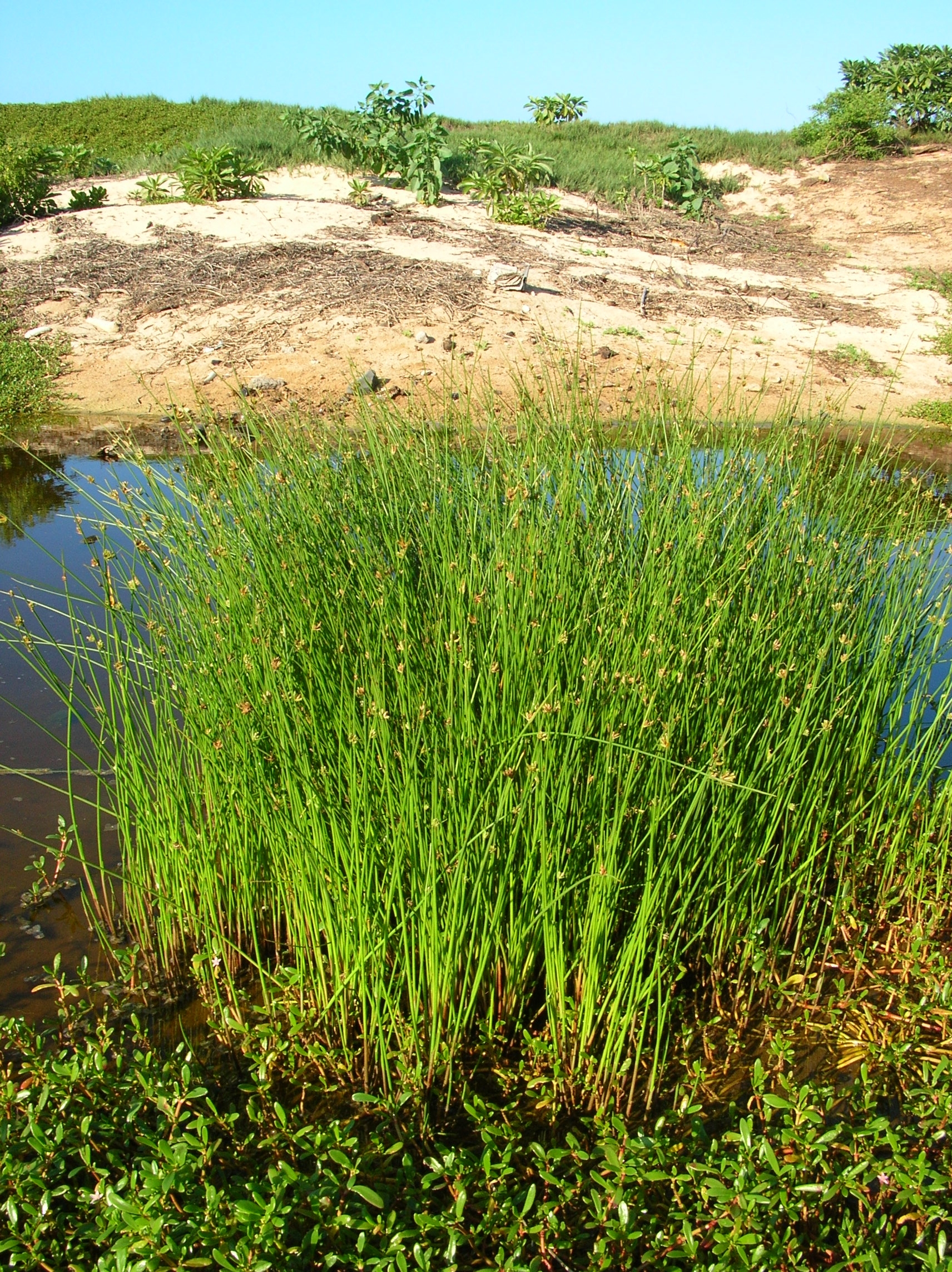 Cyperus laevigatus (habit). Location: Maui, Kanaha Beach